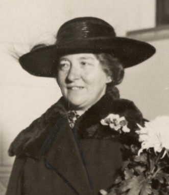 Cropped version of: Description = Mathilde Malling Hauschultz (1885-1929). Overretssagfører / barrister. Det Konservative Folkeparti/ The Conservatives. Folketinget 1918-29. KB id: ke017025 Department of Maps, Prints and Photographs, The Royal Library, Denmark.